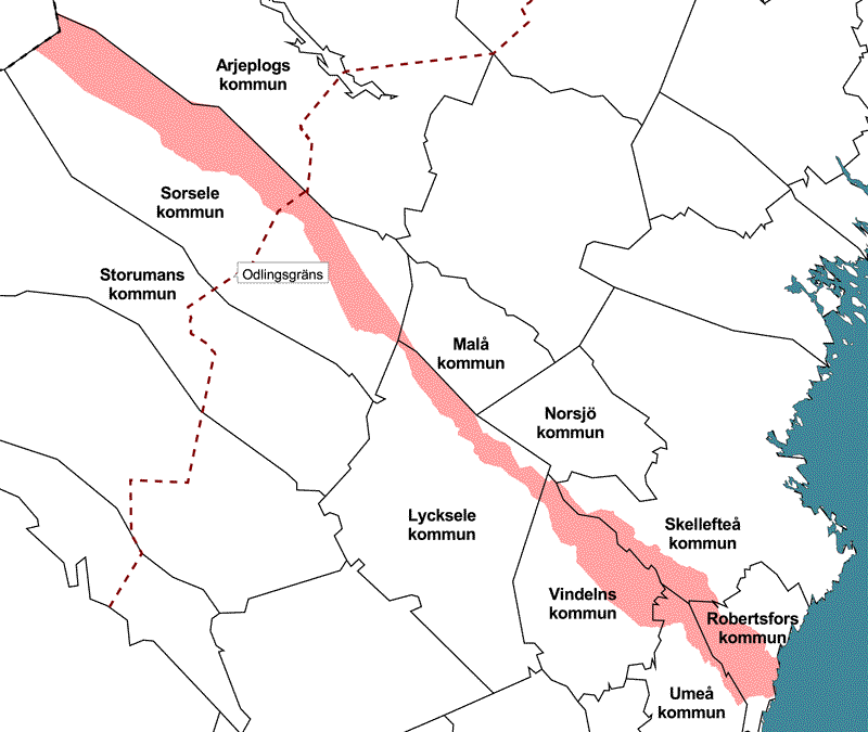 The area used by Grans sameby in Västerbottens län, Sweden. All of it has not been formally decided.